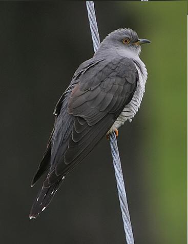 Image taken in Glen Lyon, Breadalbane, Scotland.